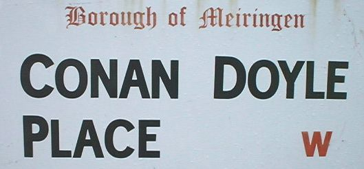 Photograph of an actual street sign in the style of a City of Westminster (where Baker Street is) street sign. But this is in Schweiz - click on the picture Image:029264 meiringen holmes.jpg